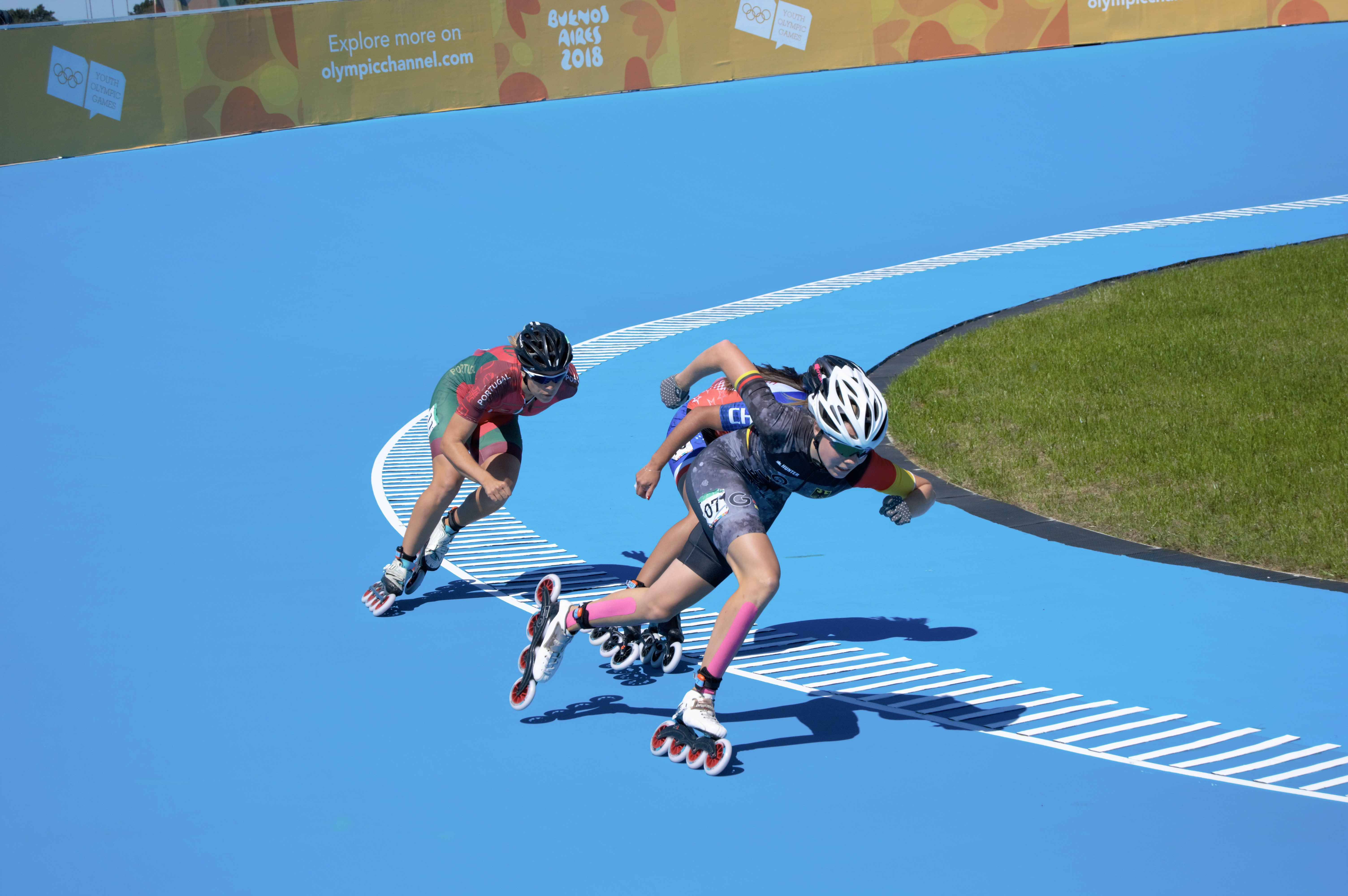 Roller speed skating at the 2018 Summer Youth Olympics. Women 1000m Sprint - Final.